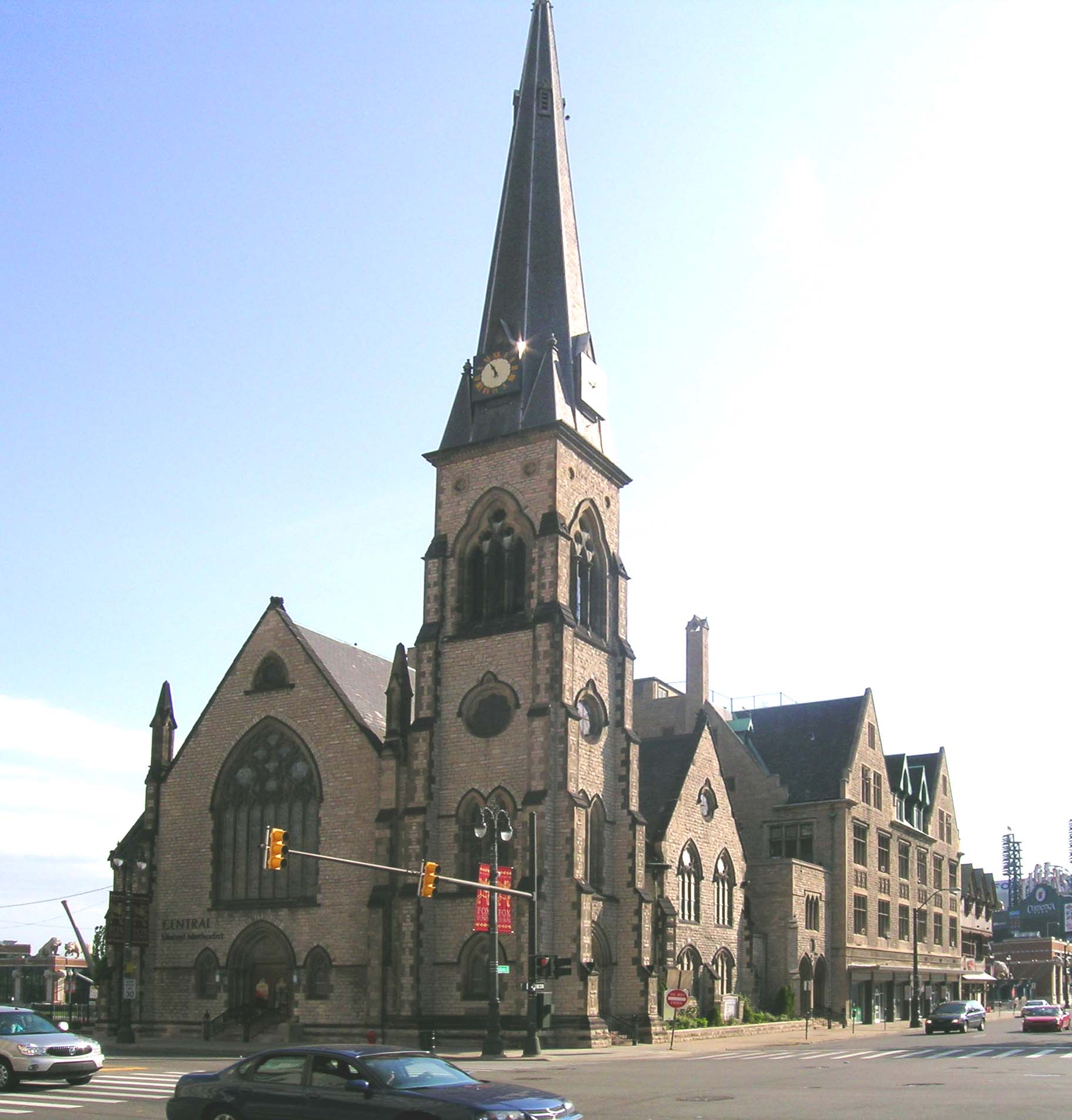 Central United Methodist Church in Detroit, Michigan, United States, is listed on the US National Register of Historic Places (NRHP). NRHP reference number 82002895